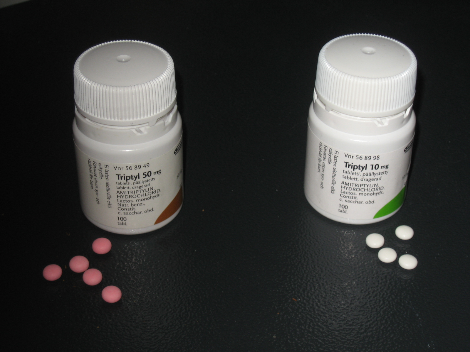 Amitriptylin 10 mg and 50 mg pills.